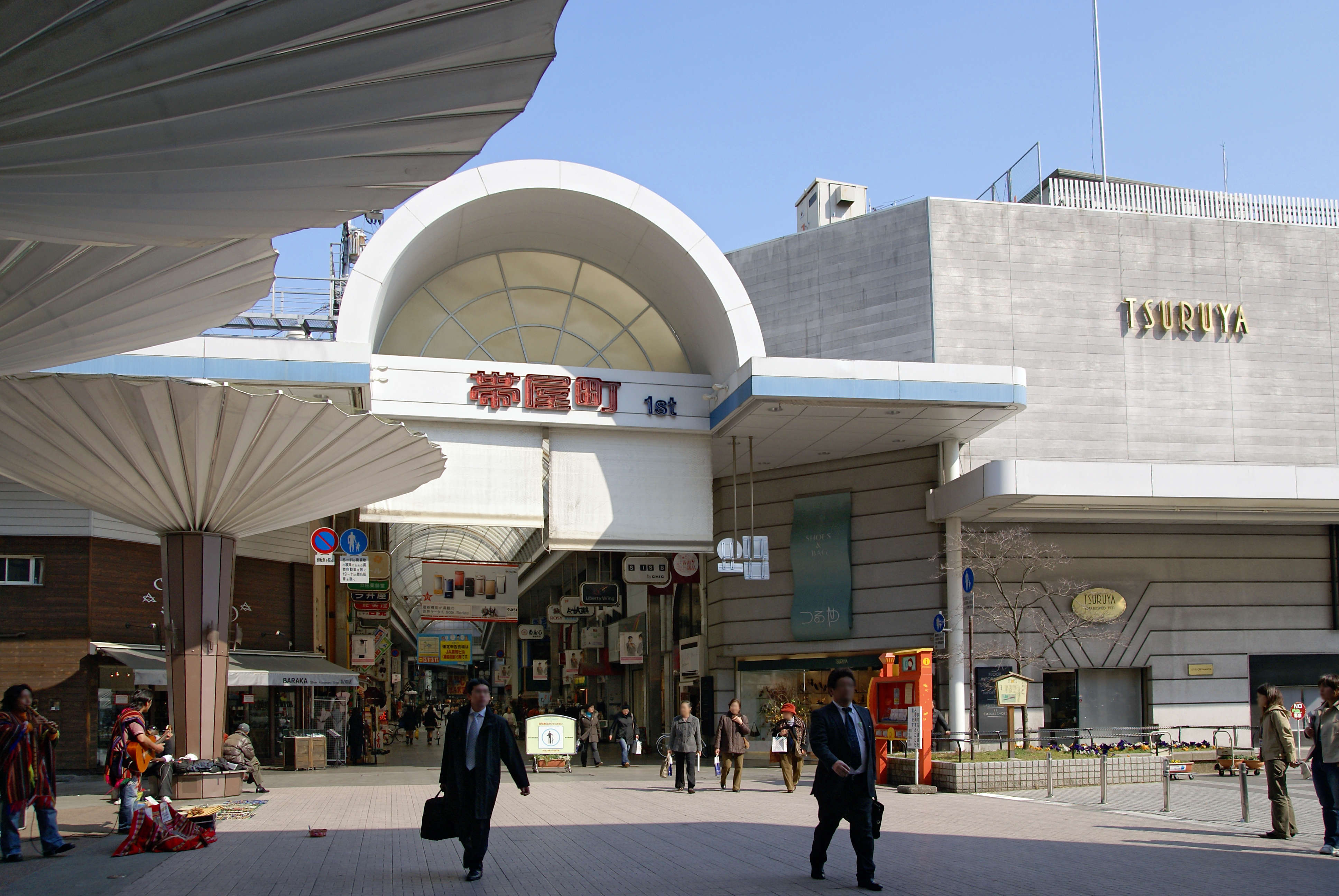 Obiyamachi Shopping Street in Kochi, Kochi prefecture, Japan